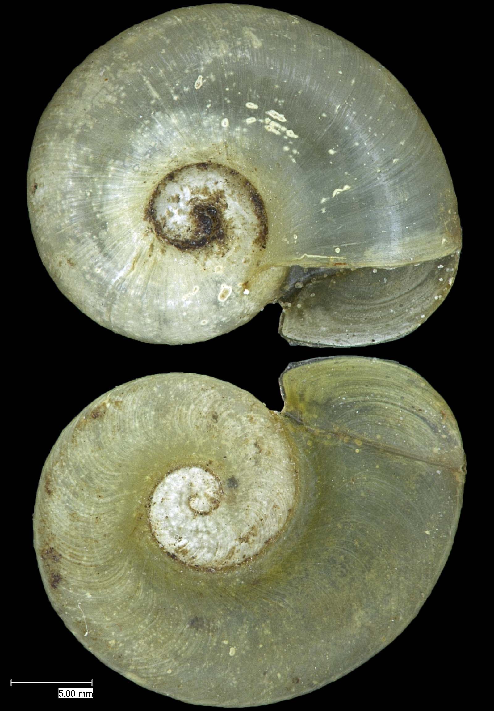 Two views of a shell of Thyrophorella thomensis from the high mountains of São Tomé